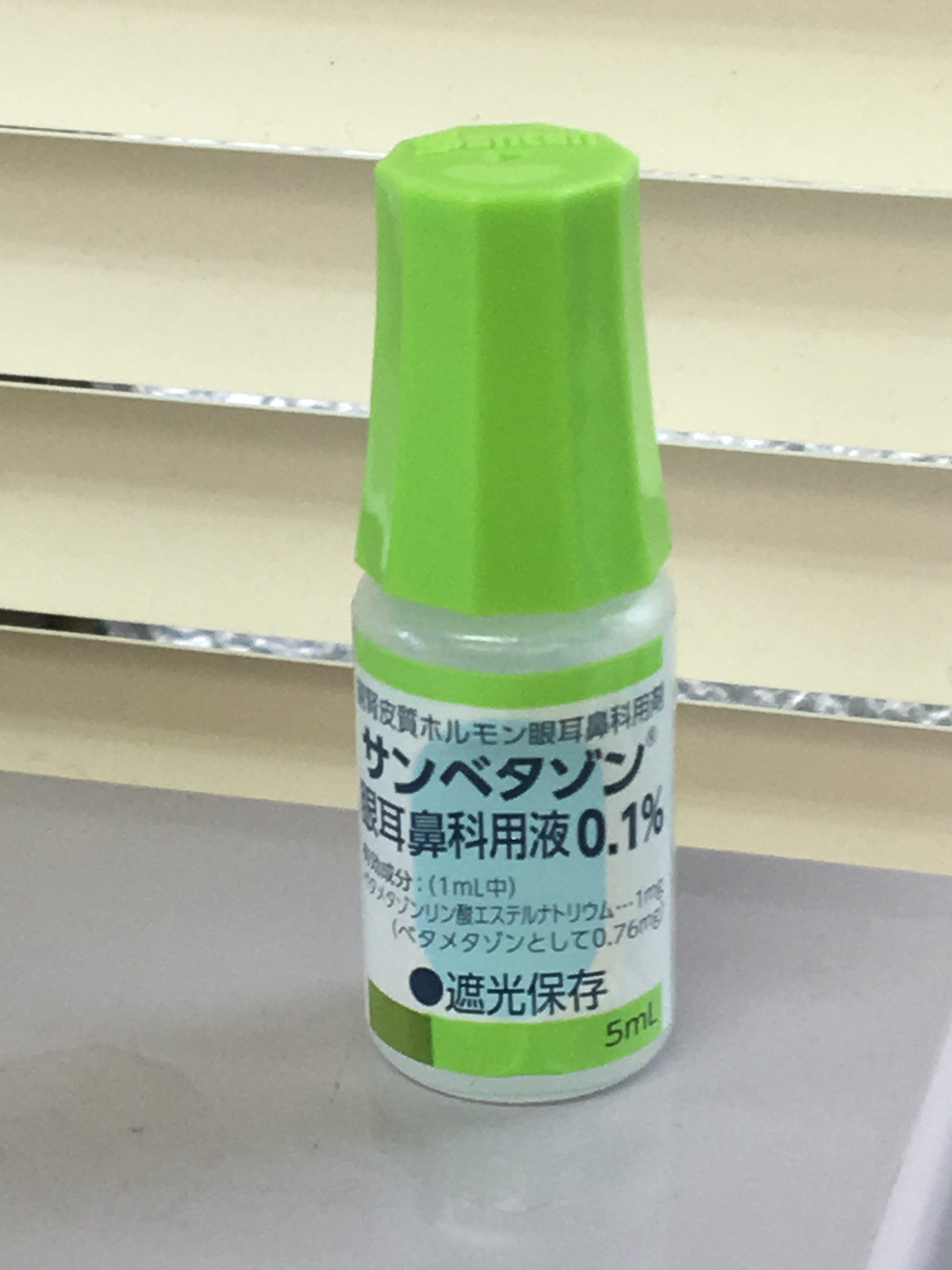 Sanbetason ophthalmic and otorhinologic solution 0.1% Betamethasone Sodium Phosphate 9-Fluoro-11β,17,21-trihydroxy-16β-methylpregna-1,4-diene-3,20-dione 21-(disodium phosphate) C22H28FNa2O8P